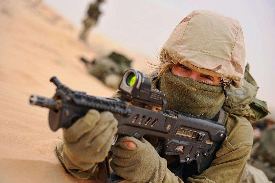 Field exercise. Photos by Noa City-Eliyahu.